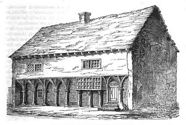 Engraving of St Leonard's Hospital in Tickhill, then in the West Riding of Yorkshire, in 1844, prior to restoration.